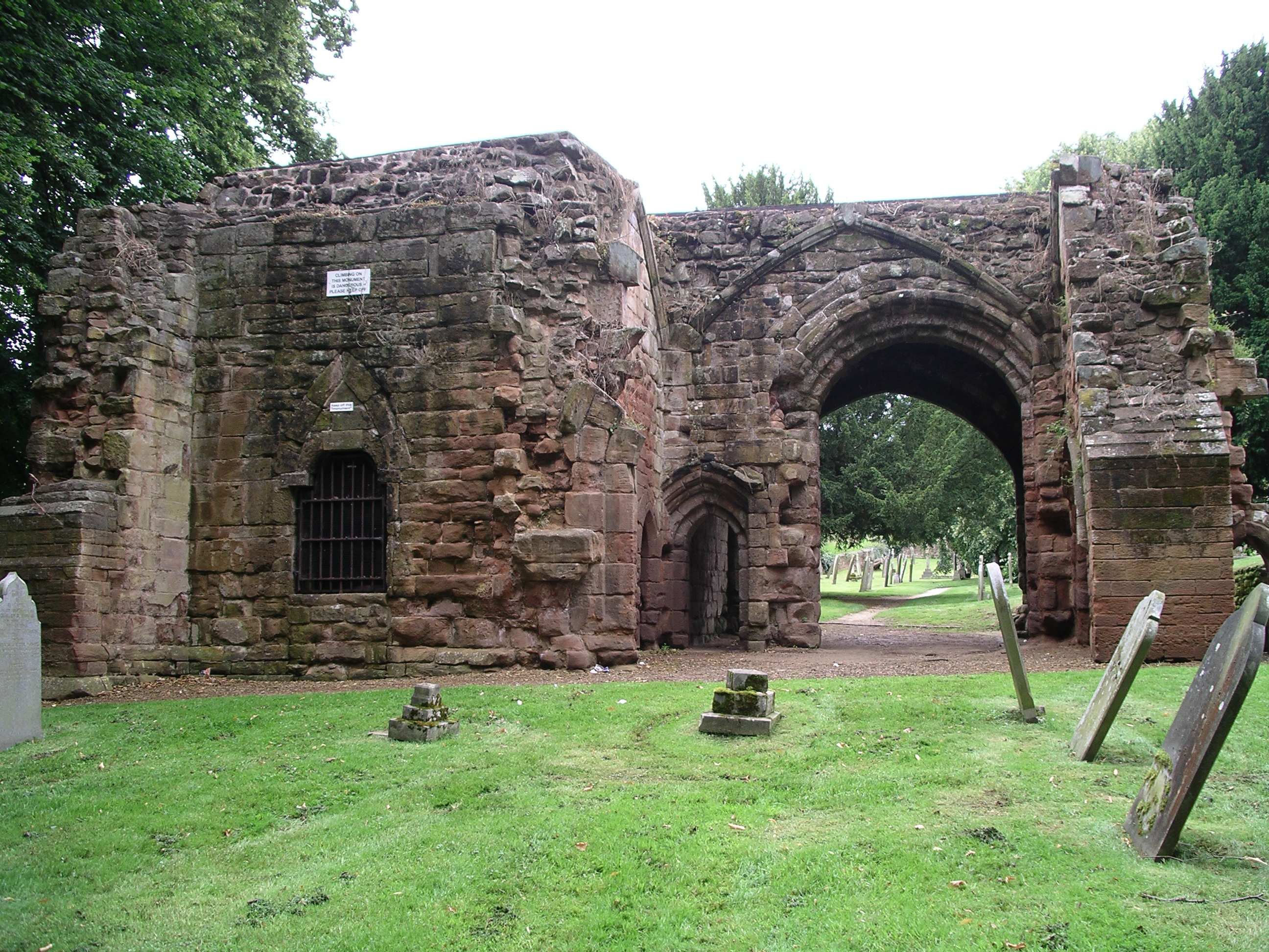 Ruin of 14th-century gatehouse, St Mary's Abbey, Kenilworth, Warwickshire, seen from the south